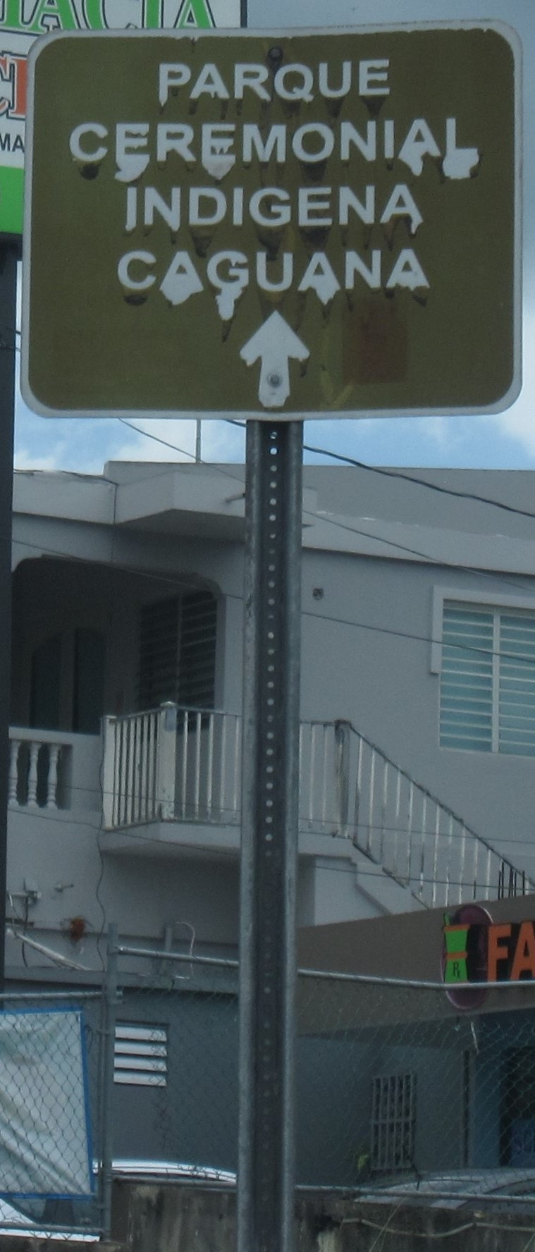 on Puerto Rico Highway 129